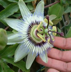 Passiflora caerulea Photograph of passionflower taken by Mihai on Island of Capri in May 2003. The hand next to the flower is useful for judging the size. Please edit this page if you know what particular type of passionflower it is. (Blue Passion Flower) This vigorous climber to 5 m (16') when grown outdoors can reach 10 m (33') when grown as a conservatory plant. The slightly scented flowers bloom from summer to early autumn and all year long in a conservatory. The flowers are borne singly app. 10 cm (4") wide with sepals and petals white or pinkish white. The central area of the flower is app. 5 cm (2") across with blue spiky filaments, white in the middle and purple at the base. The fruits are edible but lack flavor. (del) (cur) 01:49, 26 August 2003 . . Mihai (Talk) . . 247x250 (13625 bytes) (del) (rev) 23:47, 25 August 2003 . . Mihai (Talk) . . 247x250 (13625 bytes) (passion flower with hand) (del) (rev) 18:22, 11 August 2003 . . Mihai (Talk) . . 274x292 (17608 bytes) (Picture of passion flower)